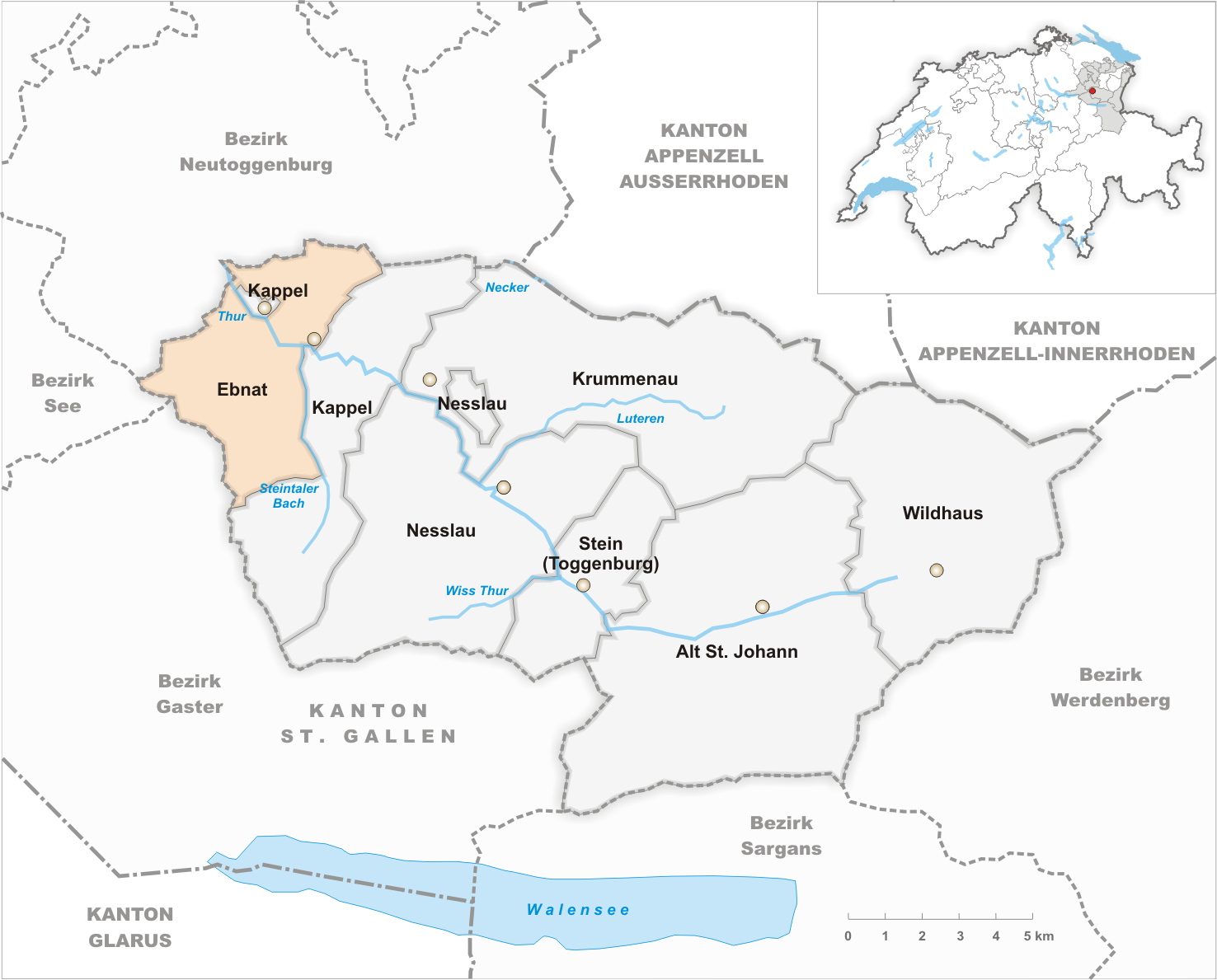 Municipality Ebnat Artist: Tschubby